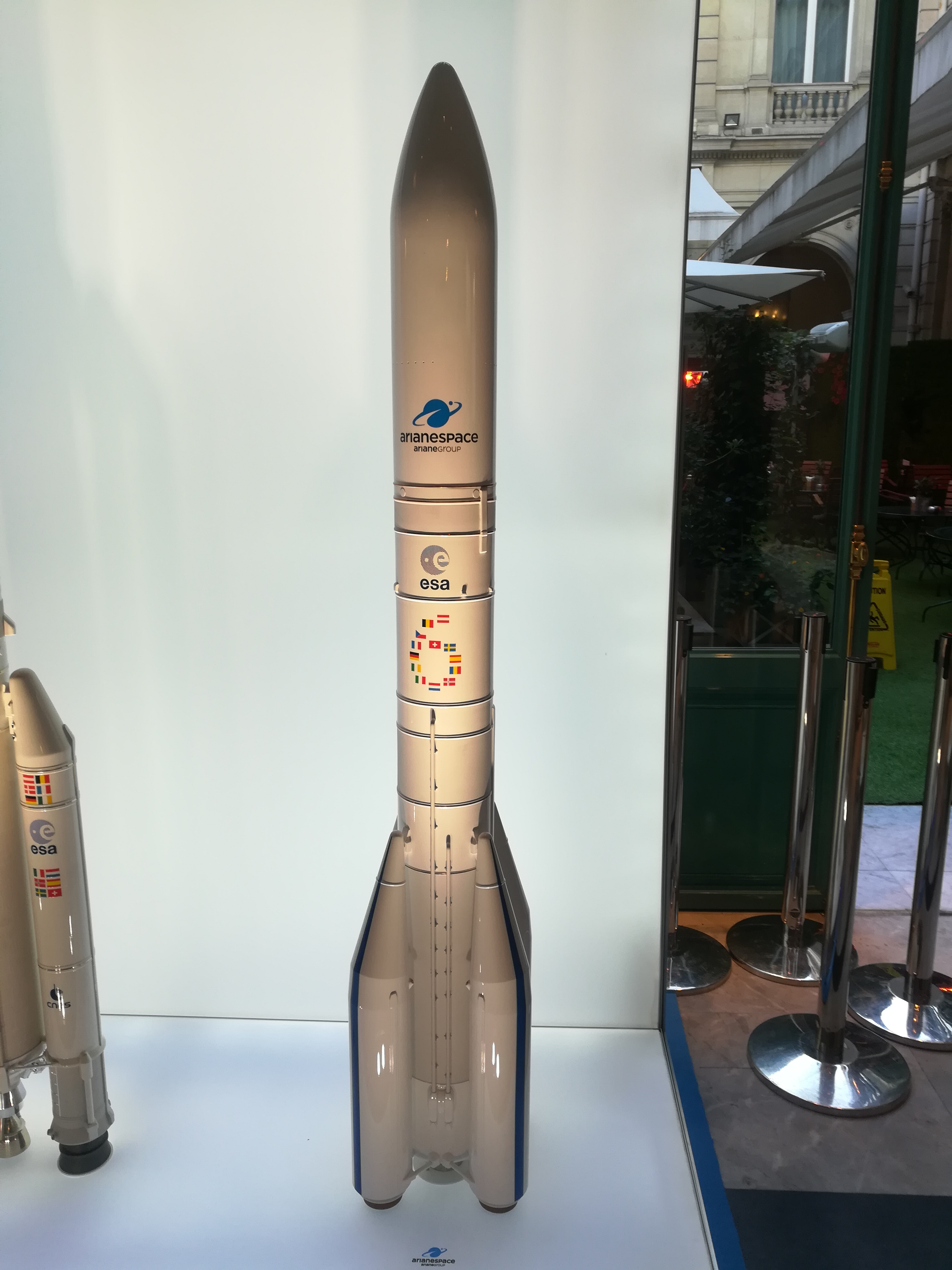 Ariane 6 mockup from Arianespace